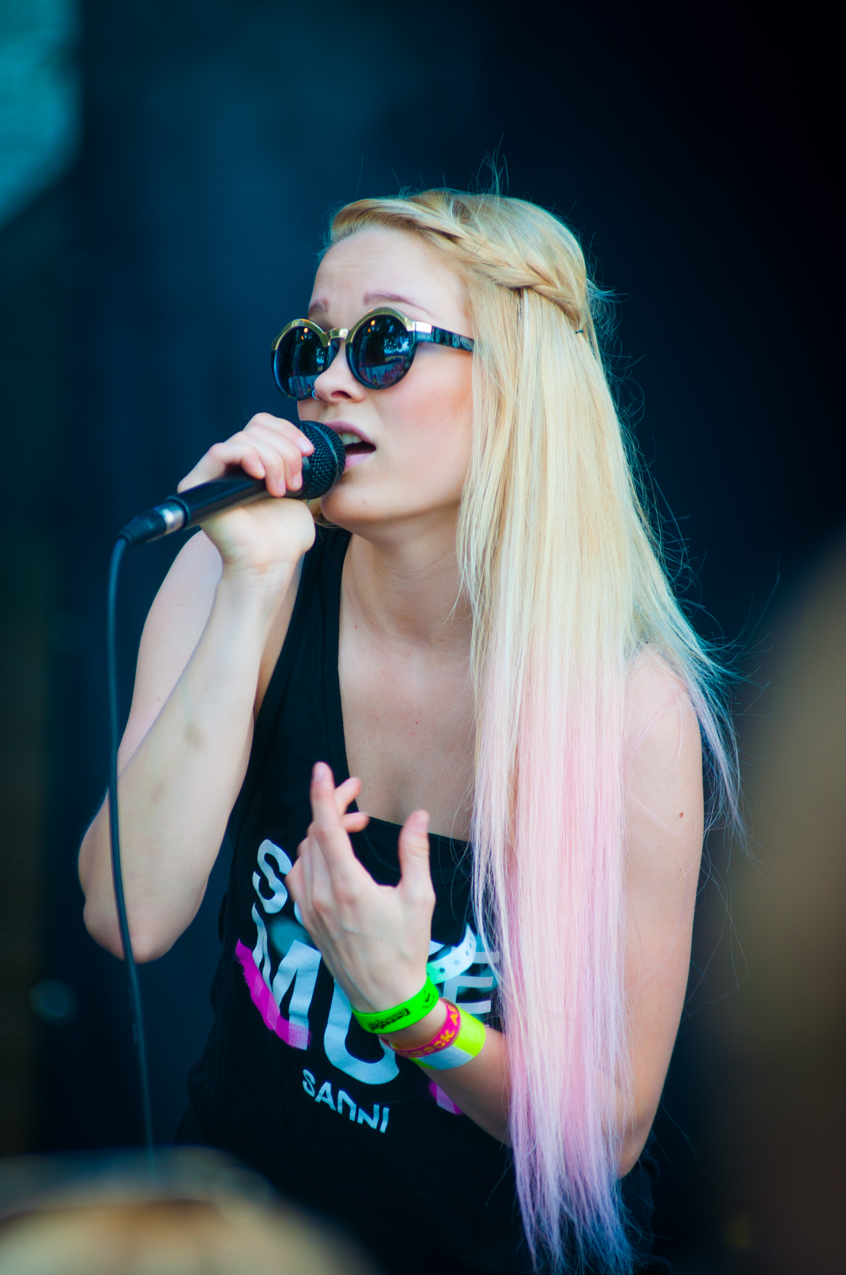 Finnish vocalist Sanni performing at the 2014 Rakuuna Rock festival in Lappeenranta, Finland.